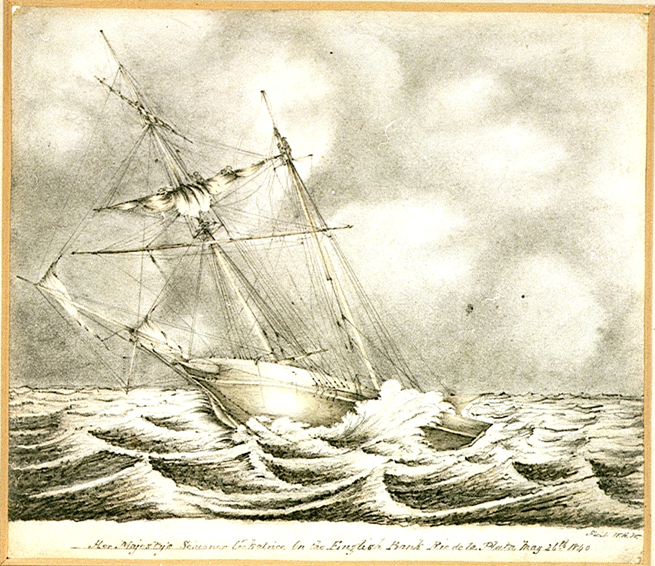 Her Majesty's schooner Cockatrice On the English Bank Rio de la Plata May 26th 1840 Tinted drawing depicting the Cockatrice (launched 1832), almost keeling over on a choppy sea on May 26th 1840.